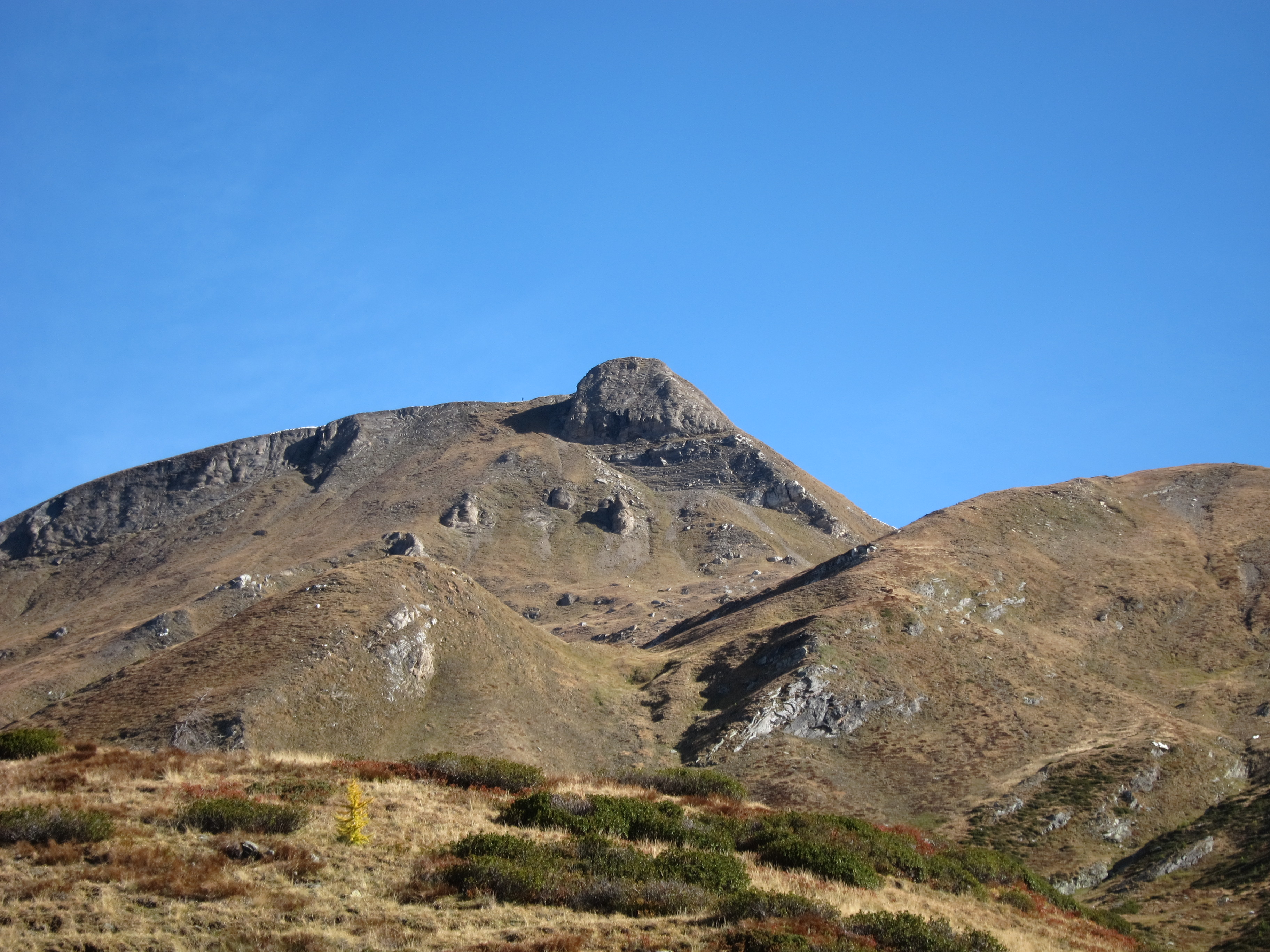 Picture of mountain Monte Corbernas 2578masl seen from location Alpe Sangiatto. The mountain is located above the Alpe Devero in the municipality of Baceno, province of Verbano-Cusio-Ossola in region Piedmont, in Italy. Pic taken the 3rd of October 2018. 2018-10-03